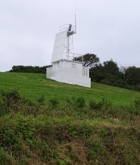 Instow Range Rear Light This navigation aid forms a pair with the front range light, which is some 500 metres WNW nearer the mouth of the River Taw. Seen from the Rectory Lane.